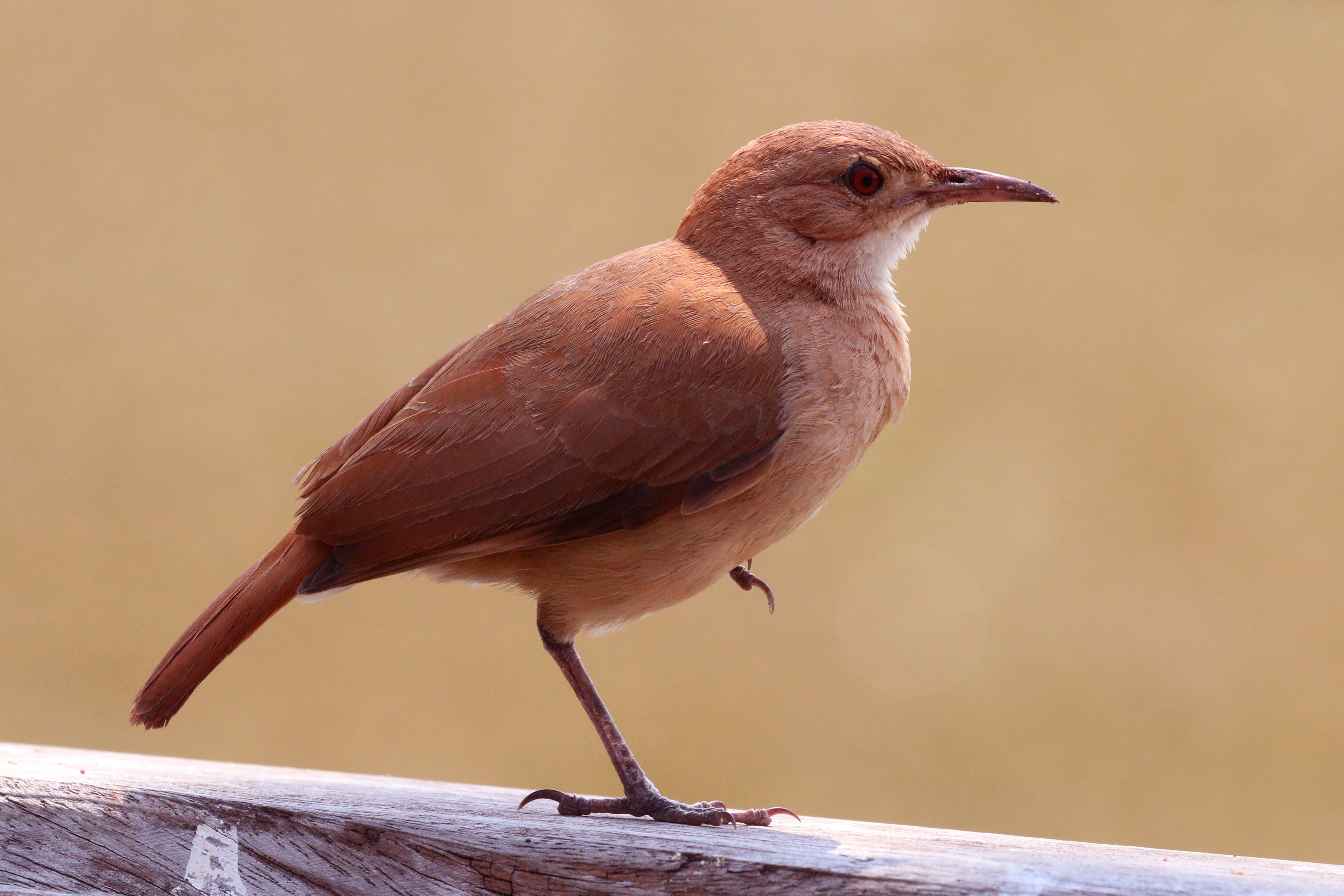 Rufous hornero or Red ovenbird (Furnarius rufus) and nest, the Pantanal, Brazil